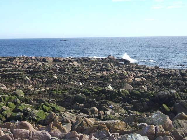 Scottish Mainland's Most Easterly Point. ....rather strangely marked as 'South Head' on the map! (photographer's thanks to correspondent who correctly points out this is not Scotland's Most Easterly point as originally titled.... from Thomas Murray... The most easterly point of Scotland is on Bound Skerry, Out Skerries, Shetland; at approximately MLWS ETRS89/WGS84 0 degrees 43.797' W (from Memory-Map 1:25 000. The most easterly point of Bound Skerry MLWS is approximately 38.7 miles / 62.3 kilometres further east, than the most easterly point of Keith Inch MLWS.